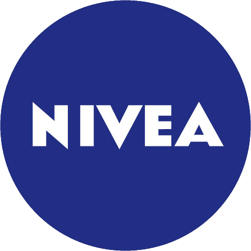 NIVEA Logo from 2016